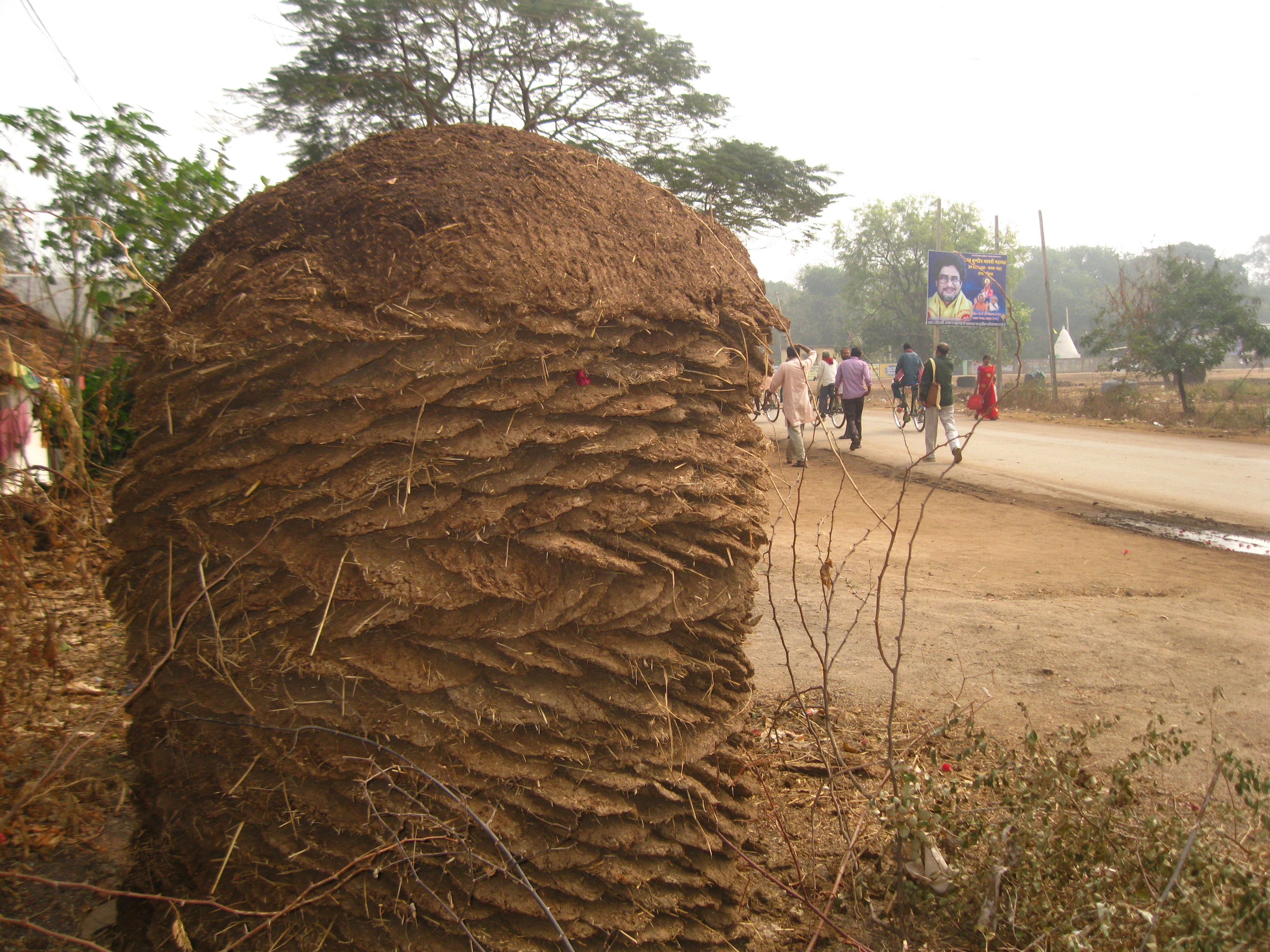 cow dung dried cake, kept for use in Chhattisgarh, India